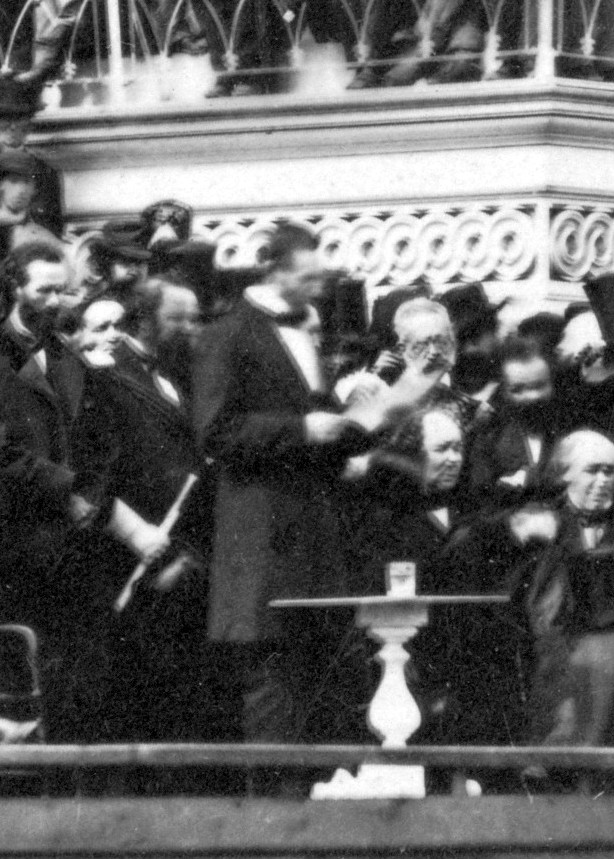 Abraham Lincoln delivering his second inaugural address as President of the United States, Washington, D.C.